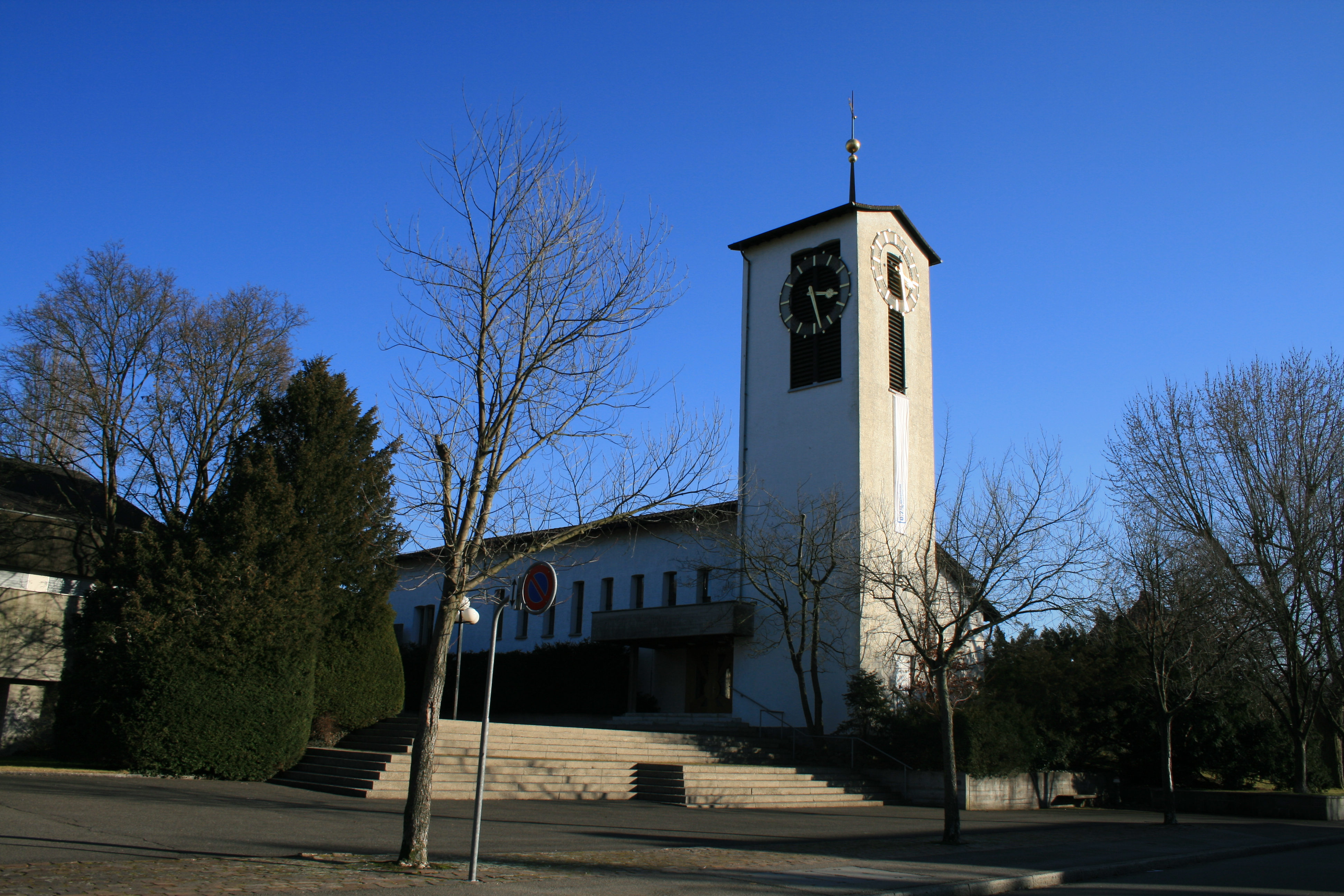 Ref. Church, Wettingen, Switzerland